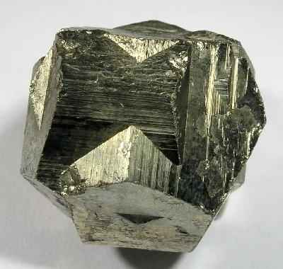 Pyrite Locality: Wyoming Mine, Gilman District (Battle Mountain District; Red Cliff District), Eagle County, Colorado, USA (Locality at ) Size: 1.5 x 1.4 x 1.3 cm. Highly lustrous and complete all the way around save for one small area, this is an excellent example of an “Iron Cross Twin”, a habit of Pyrite is hard to find. Ex. Marilyn Dodge Collection.